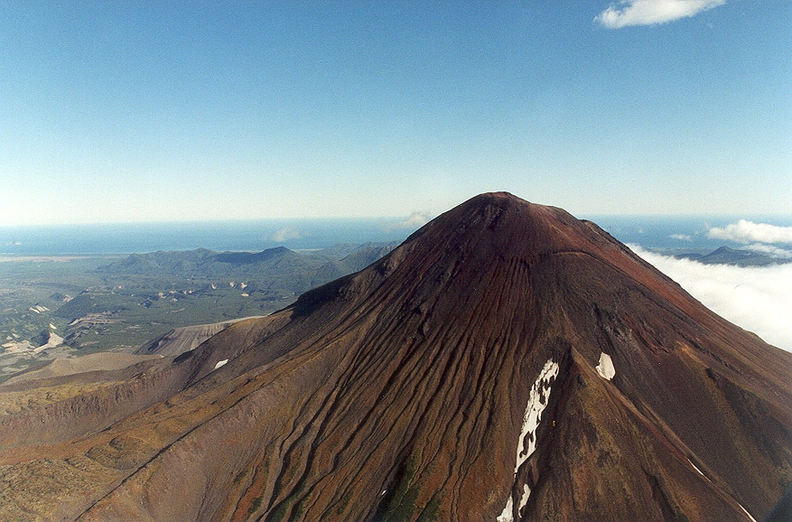 A volcano in the Kurile Islands, Russia